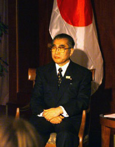 On the first day of the 1999 G8 Summit in Cologne, Germany, the President meets with Prime Minister Keizo Obuchi of Japan.